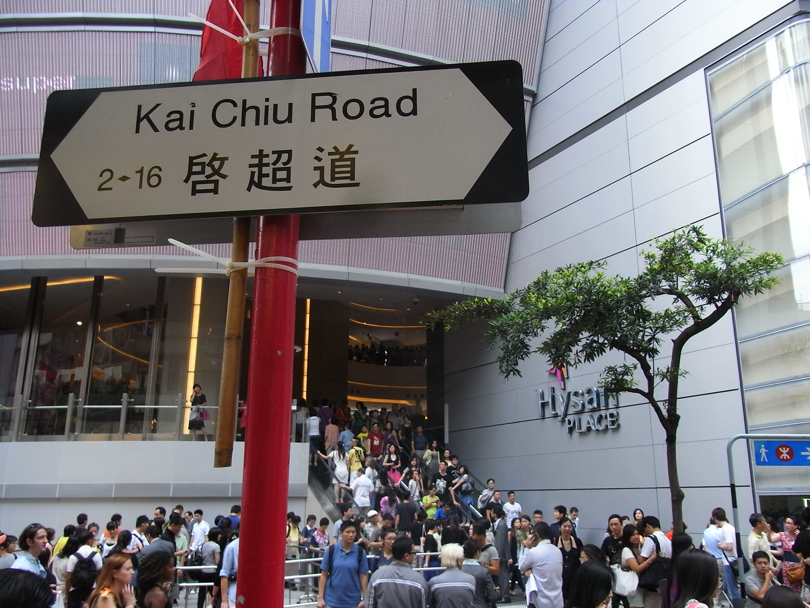 Kai Chiu Road, Lee Garden Hill, Causeway Bay, Hong Kong